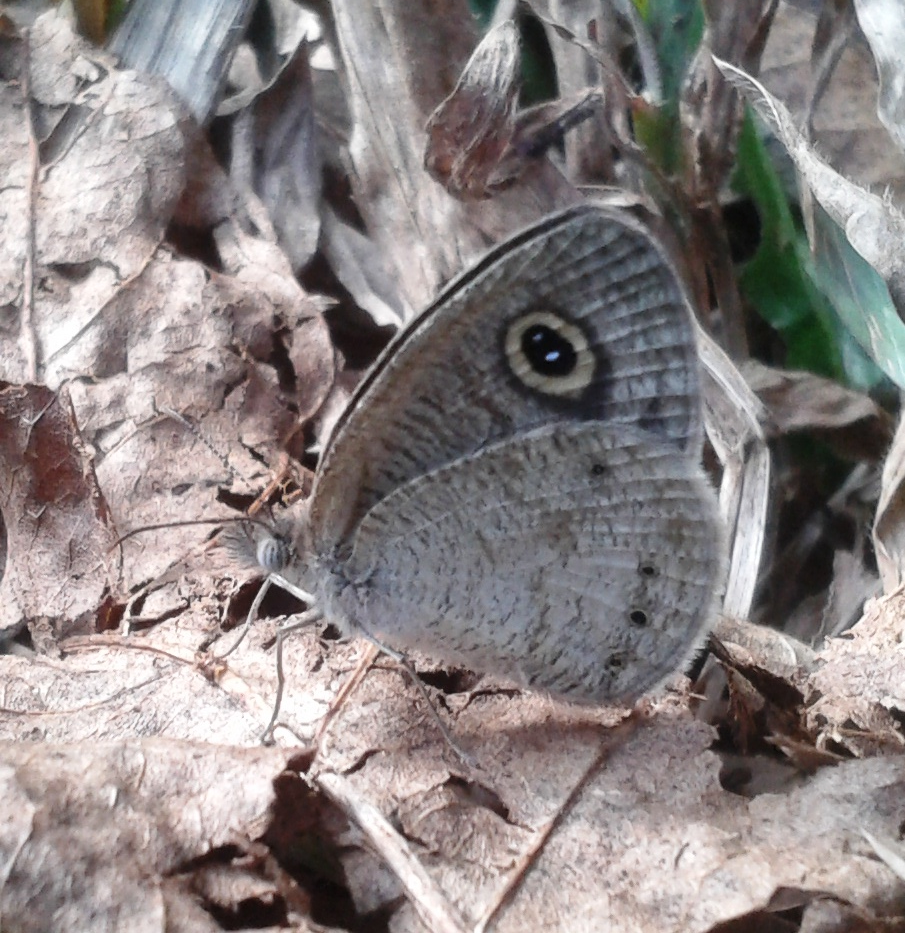 Dry-season form seen at Coorg